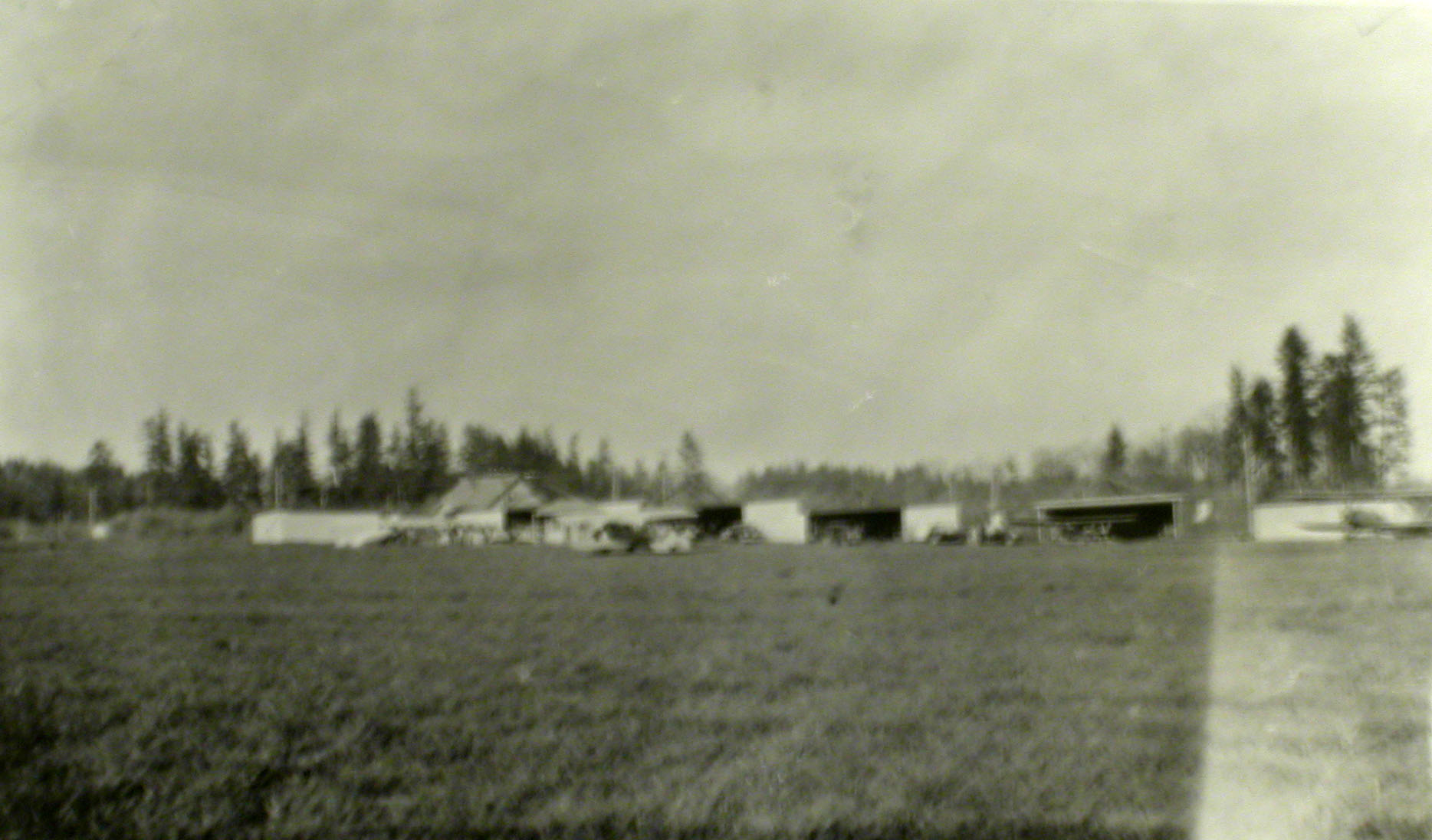 Bernard Airport 1934. Historical images of Beaverton, Oregon.